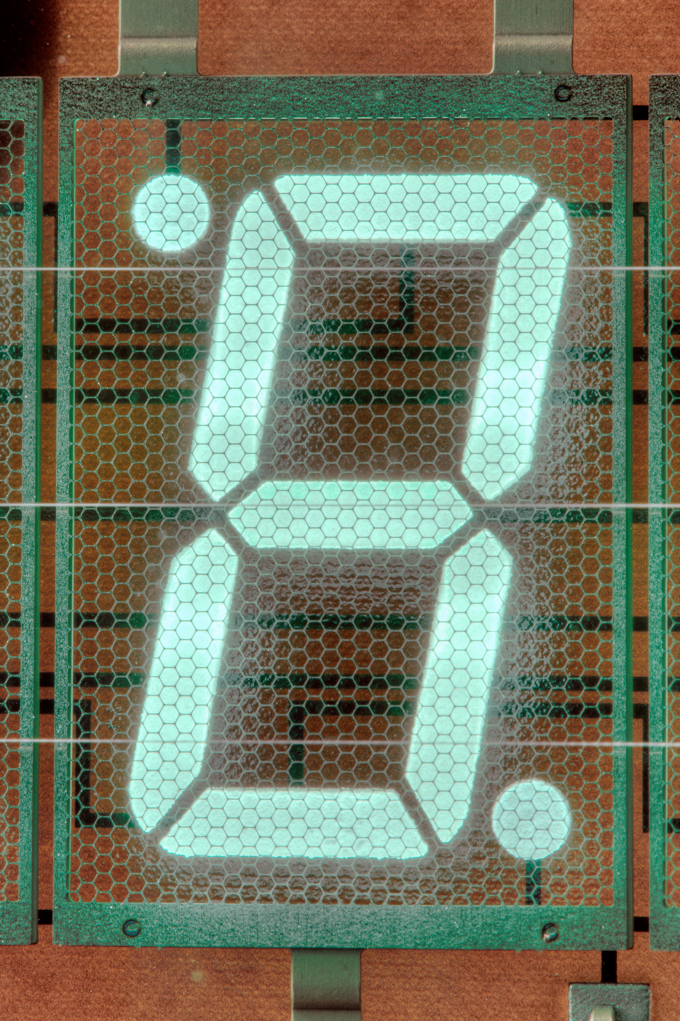 Macro Shot of a Vacuum Flourescent Digit